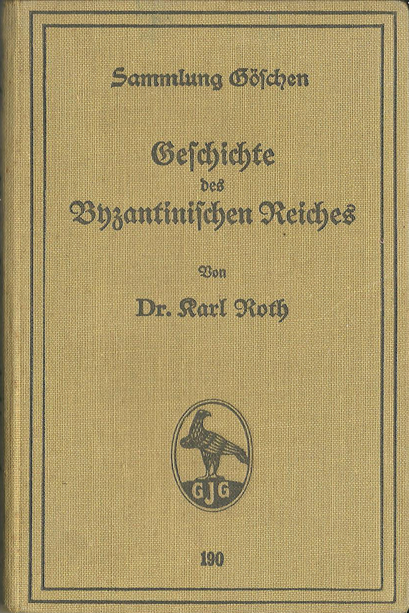 Front cover of Karl Roth's book Geschichte des Byzantinischen Reiches (History of the Byzantine empire)), Volume 190 of the Goeschen collection